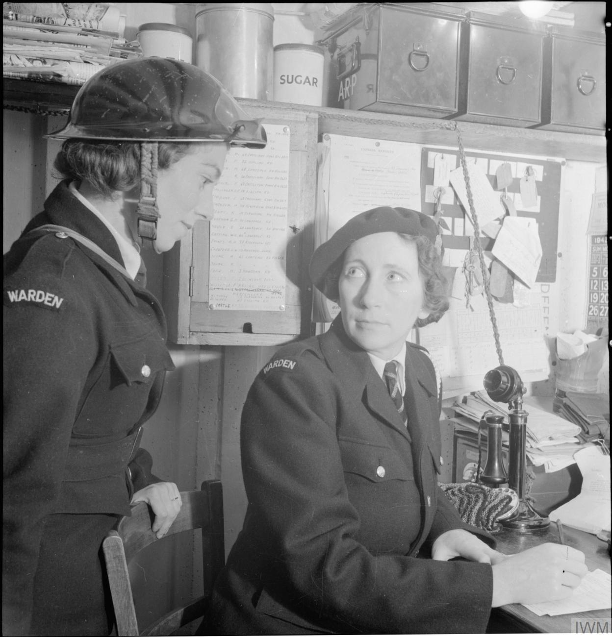 All-in War Worker- Everyday Life For Mrs M Hasler, Barnes, Surrey, 1942 Mrs Hasler (aged 42) signs the warden's log book at the Air Raid Precautions (ARP) Post where she does some part-time work. The full-time warden at the Post, Mrs M G Gibbons (aged 25) can be seen on the left of the photograph. According to the original caption, Mrs Hasler was on duty when the first London siren sounded.